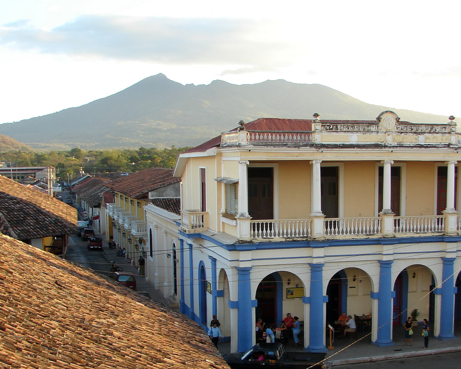 Mombacho volcano from Granada (Nicaragua)